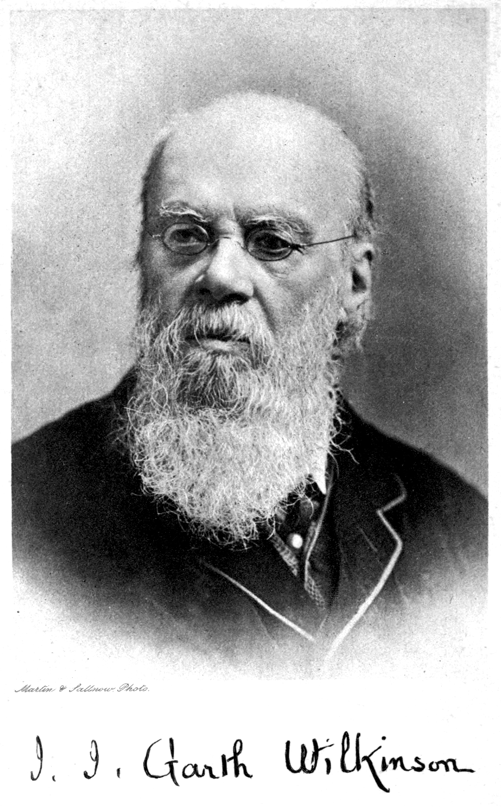 Image of author J. J. Garth Wilkinson, with his signature below.